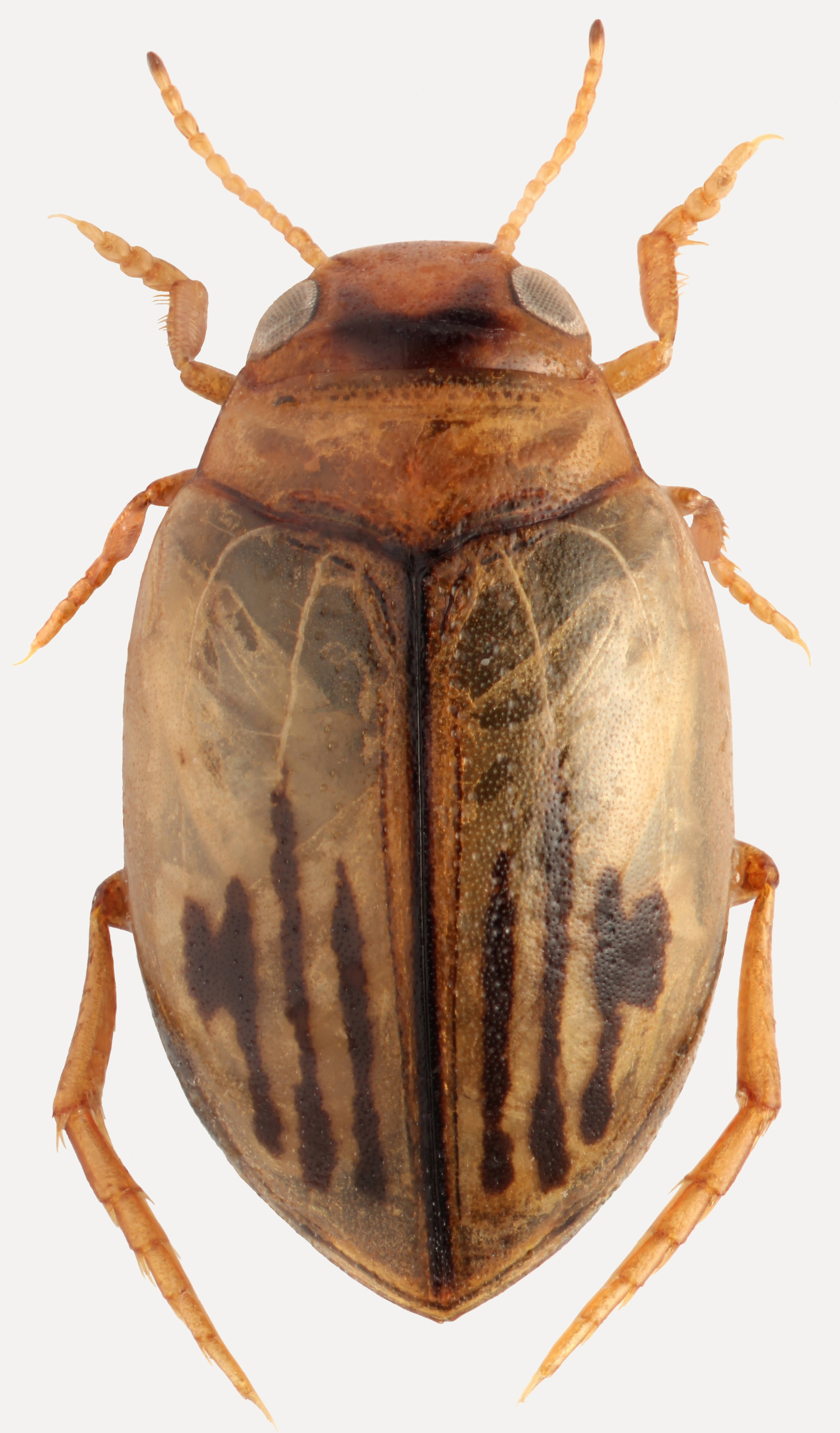 Dorsal habitus of Hygrotus confluens from the United Arab Emirates